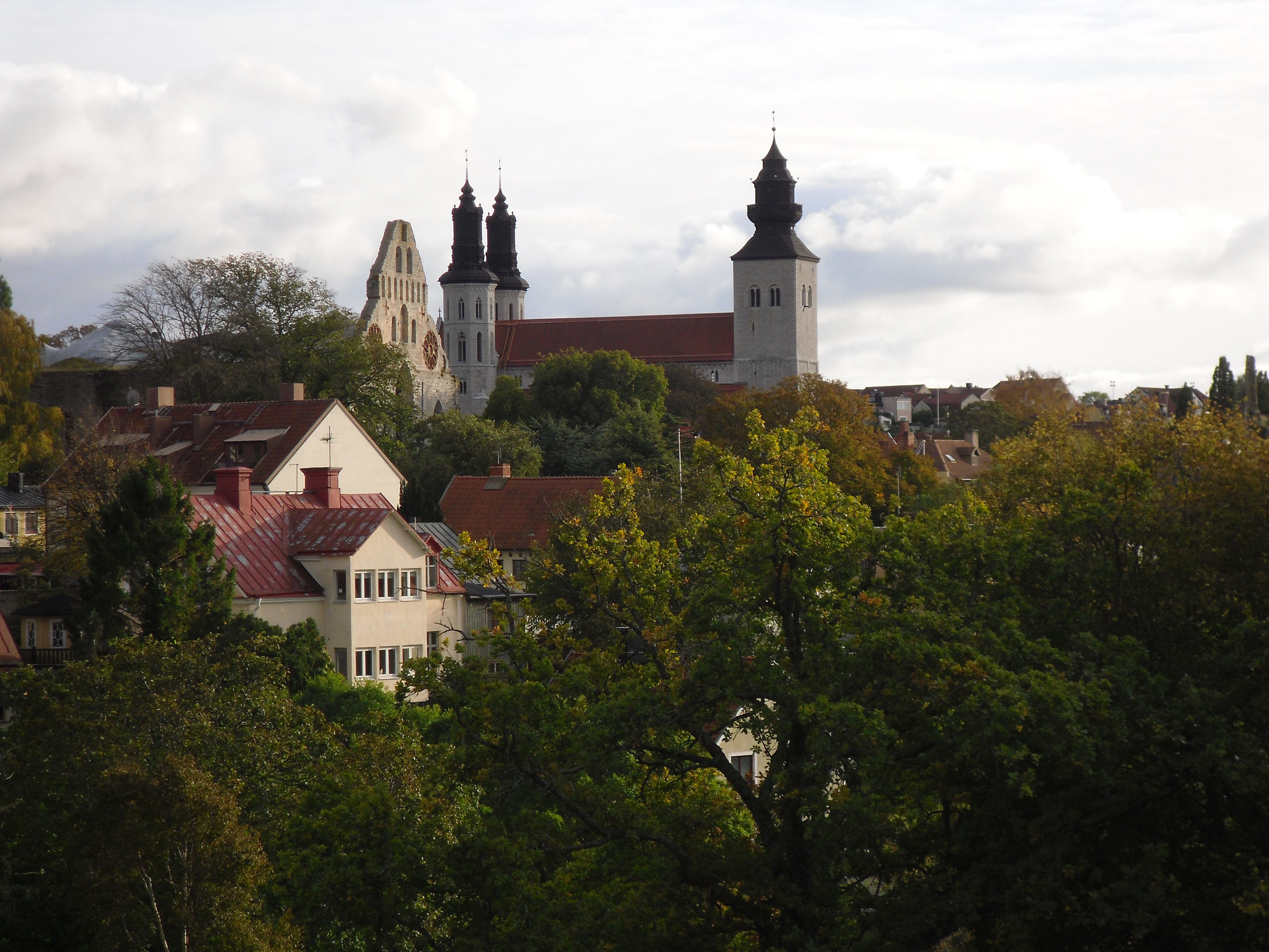 The ruin of St. Nicolai Church and Visby Cathedral, Visby, Sweden.